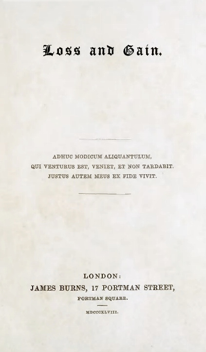 Loss and Gain 1st ed title pg